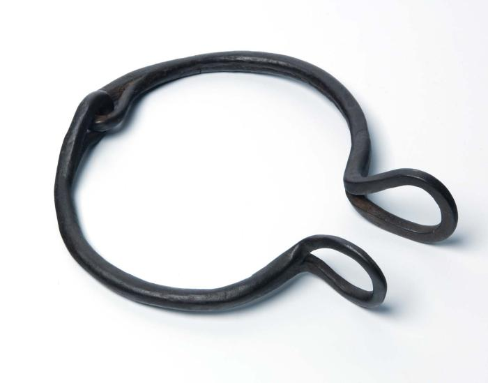 Slave neck collar, made of two semi-circular parts. Used to restrain insubordinate slaves, espcially at night. Also used for those sentenced to labor.